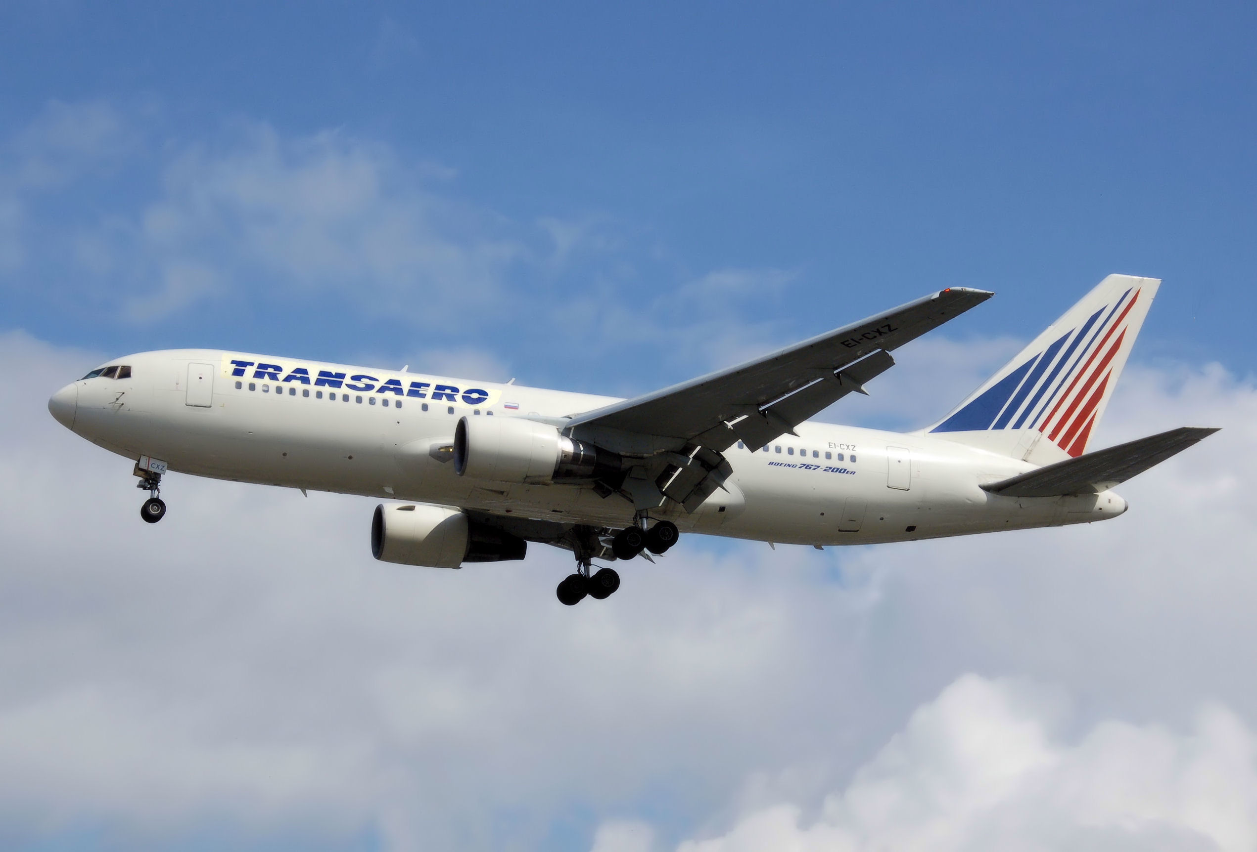 Transaero Boeing 767-200ER (EI-CXZ) lands at London Heathrow Airport, England.